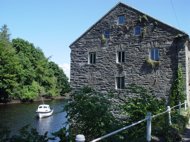 The Mall Ramelton An old building known as the fish house along the Leannan River in Ramelton town.